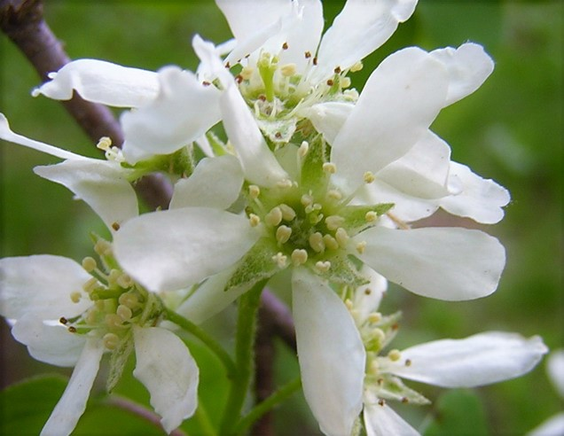 Amelanchier canadensis, flowers. Russia, Ukhta